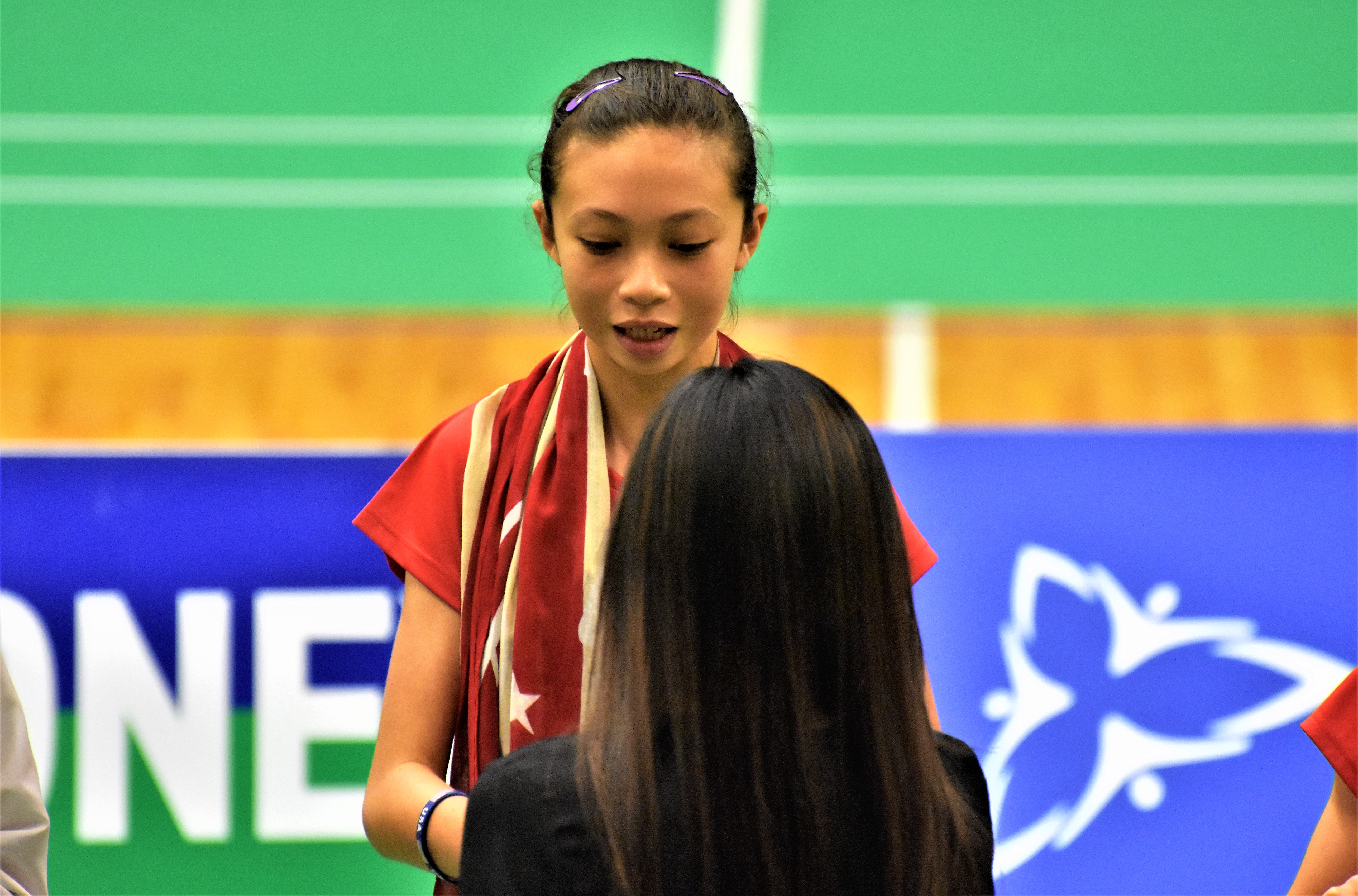 Francesca Corbett takes Gold for Girl's Singles and Girl's Doubles under 13 at the 2017 Pan Am Games in Ontario Canada